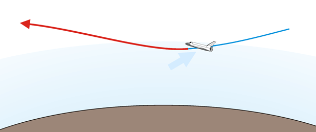 Space shuttle bounces out when entering to atmosphere with missed angle.